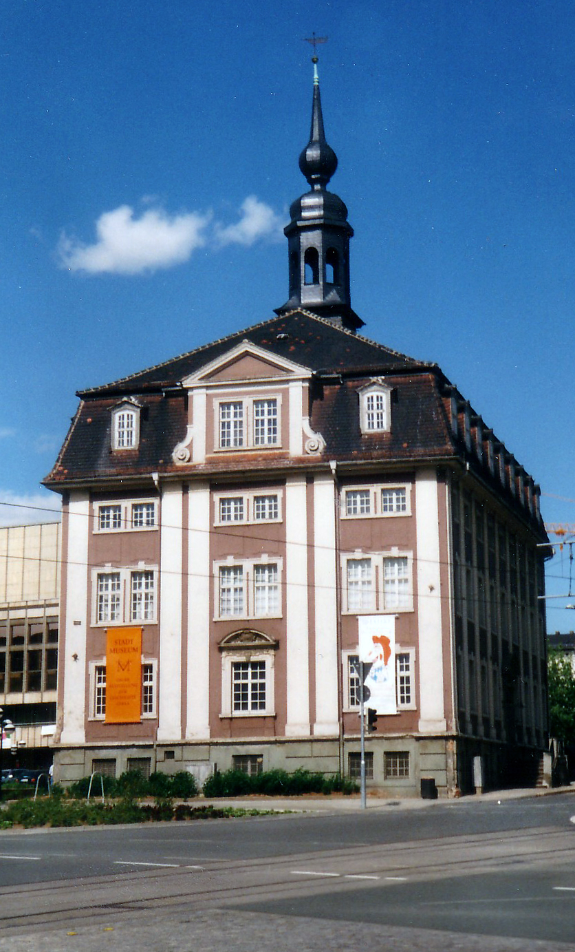 City Museum in Gera, Germany (condition before reconstruction from 2002 to 2005)